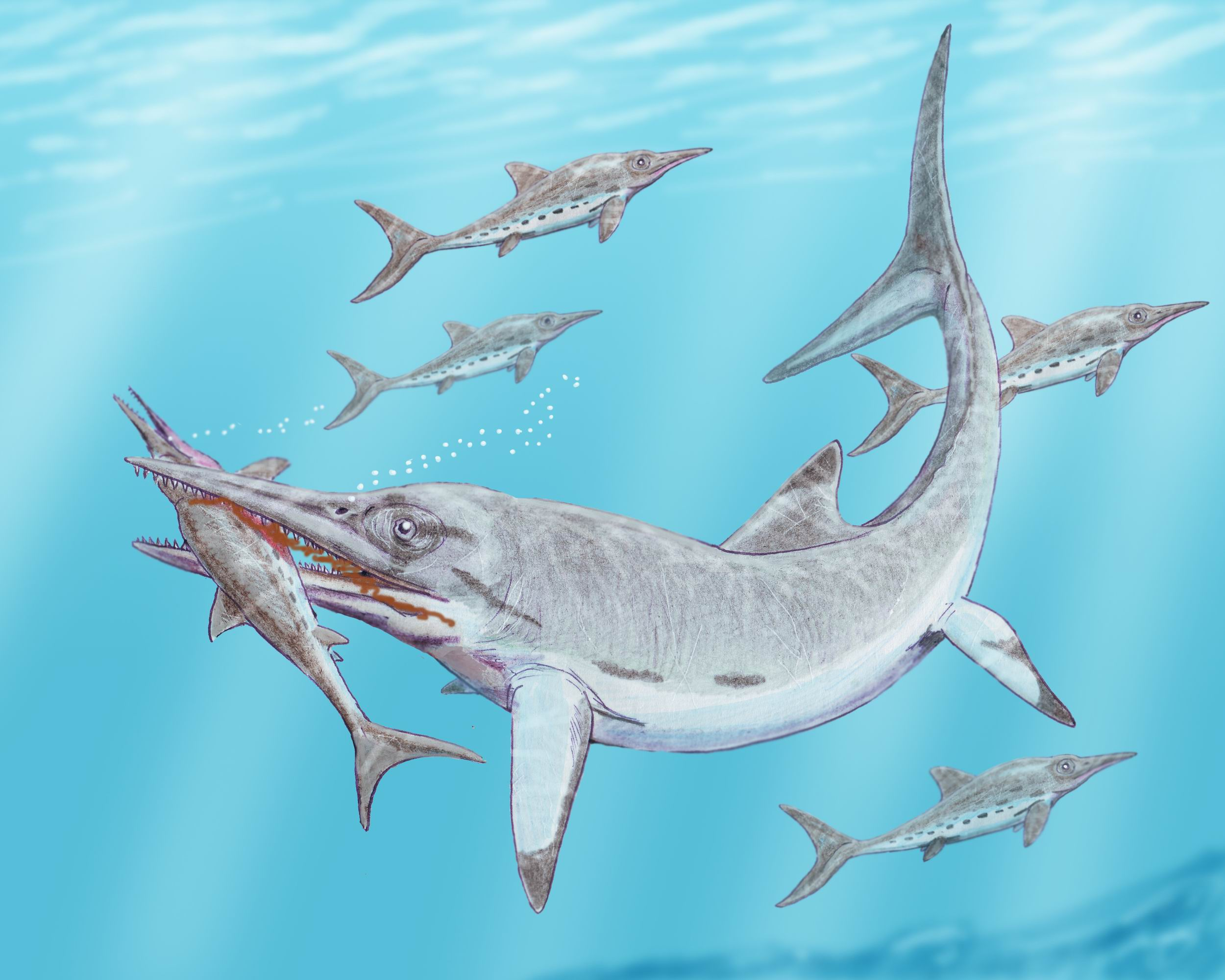 Temnodontosaurus burgundiae attack Stenopterygius hauffianus. Lias of Germany